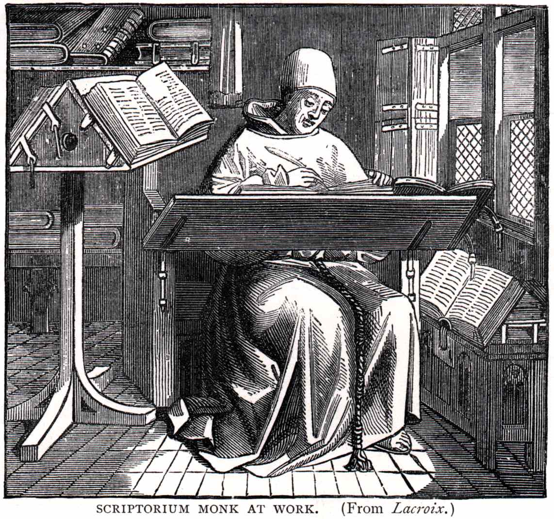 Title: Scriptorium Monk at Work.A monk copies a text from a large book on his writing table.